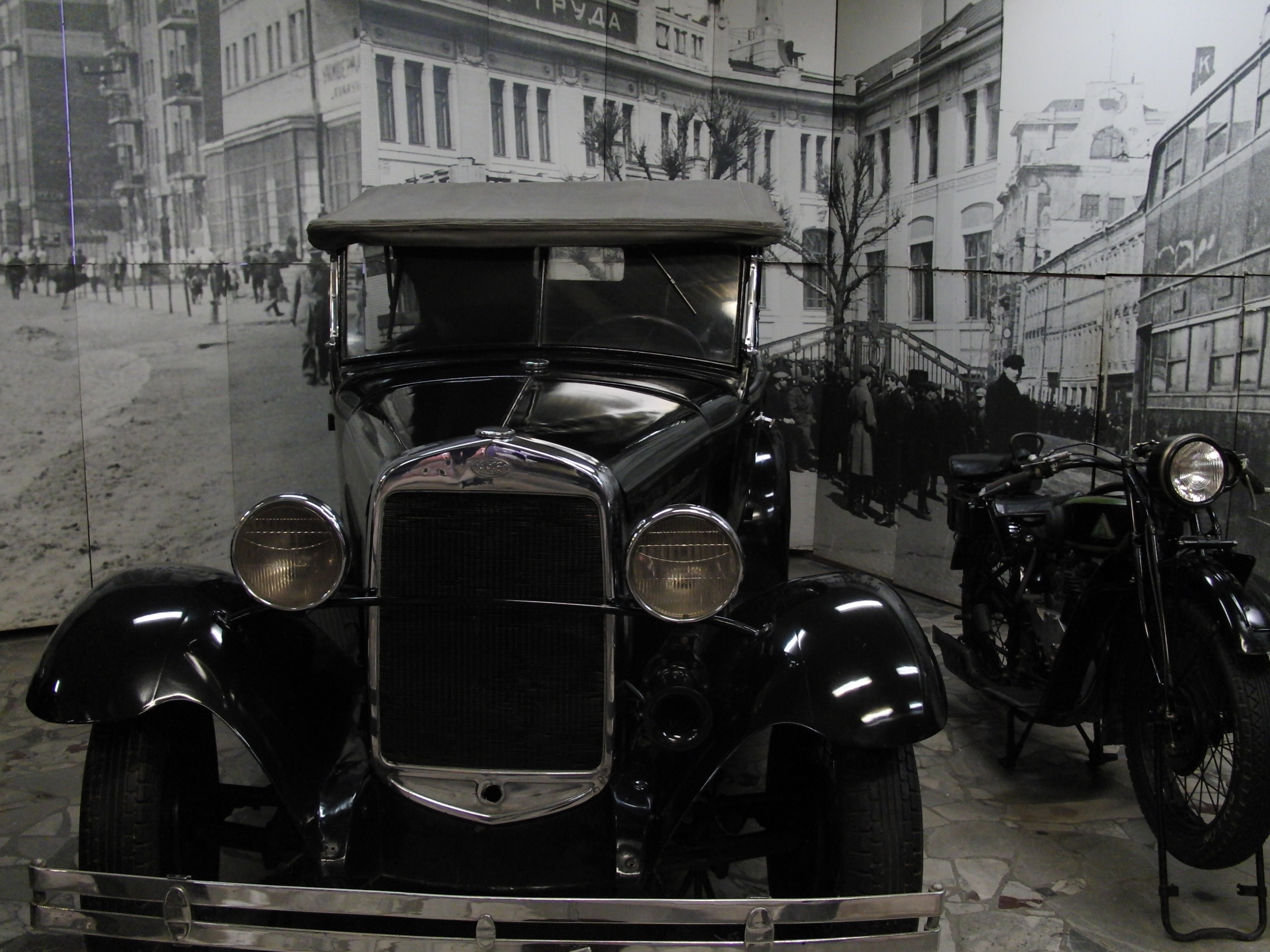 transport exposition in Polytechnical Museum, Moscow